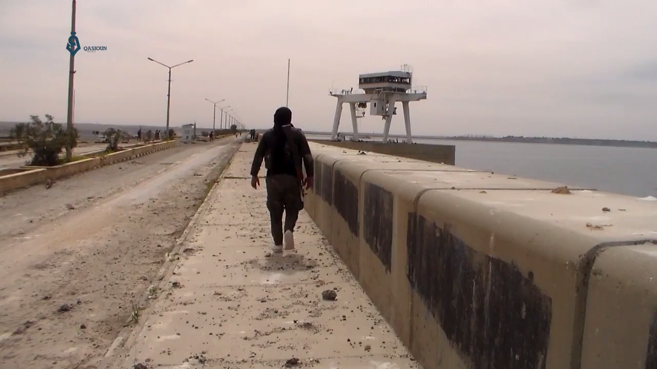 Fighters of the Syrian Democratic Forces near Tabqa Dam on the bank of the Assad Reservoir.